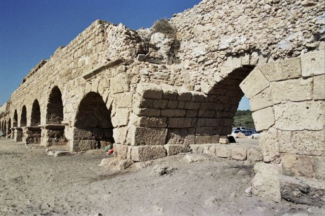 For more pictures and videos of Israel, please visit here. The ruins of the Aqueducts at Caesarea, Israel